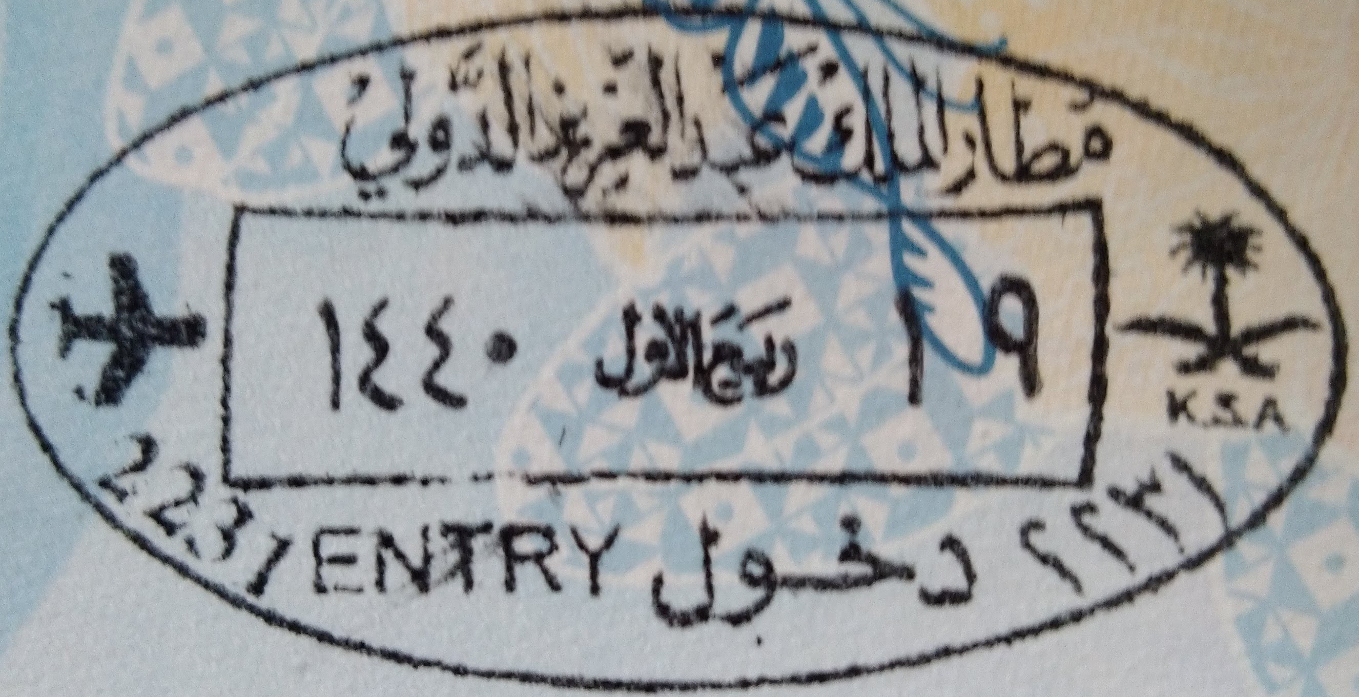 Saudi Immigration stamp in Malaysian Passport